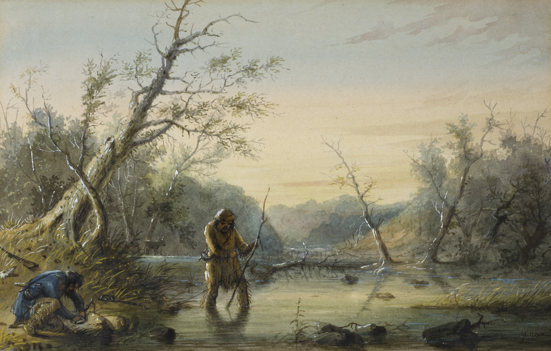 Having searched around the stream for "sign" of beavers- such as footprints in the mud or sand, these trappers are in the process of setting their five pound traps in beds they had dug with their knives. Each trap was tied firmly to a tree or a pole as well as a float stick that was hammered into the mud to the beaver could not carry off the trap. The trappers travel in pairs because of the continual threat of Indian attack.